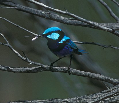 Malurus splendens musgravei (Splendid or Turquoise Fairy-wren) with purplish petal - nr Yardea, Gawler Ranges, SA